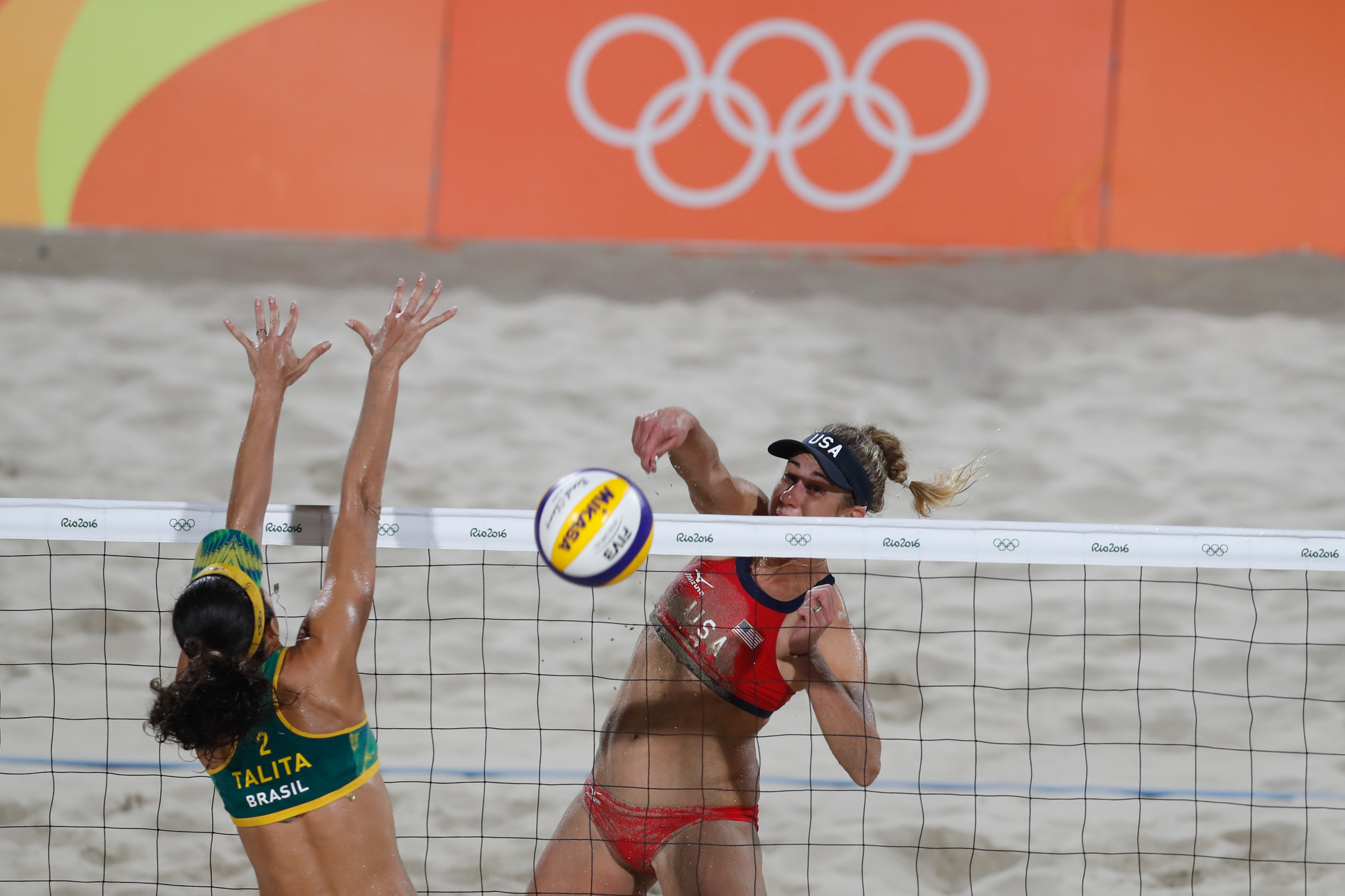 Rio de Janeiro - Dupla de vôlei de praia do Brasil Larissa e Talita perdem a disputa de bronze para norte-americanas Walsh e Ross nos Jogos Olímpicos Rio 2016, em Copacabana ( Fernando Frazão/Agência Brasil)